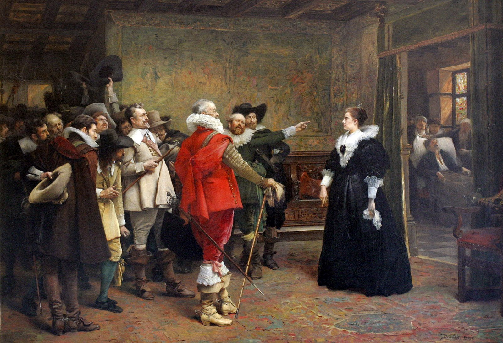 Polyxena of Lobkowitz safeguarding royal officials Slavata and Martinic, thrown out of windows of the royal castle in Prague in 1618, painting by Václav Brožík, oil on canvas, 87×146 cm.